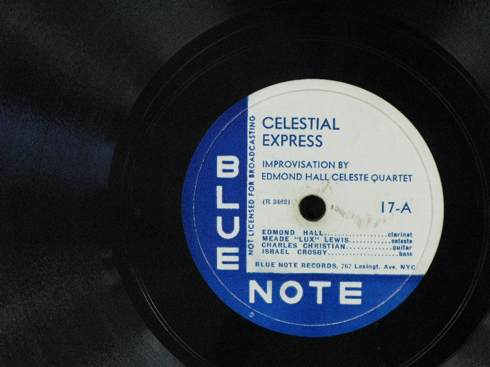 Edmond hall Quartett with Charlie Christian - Celestial Express - Blue Note Records78s